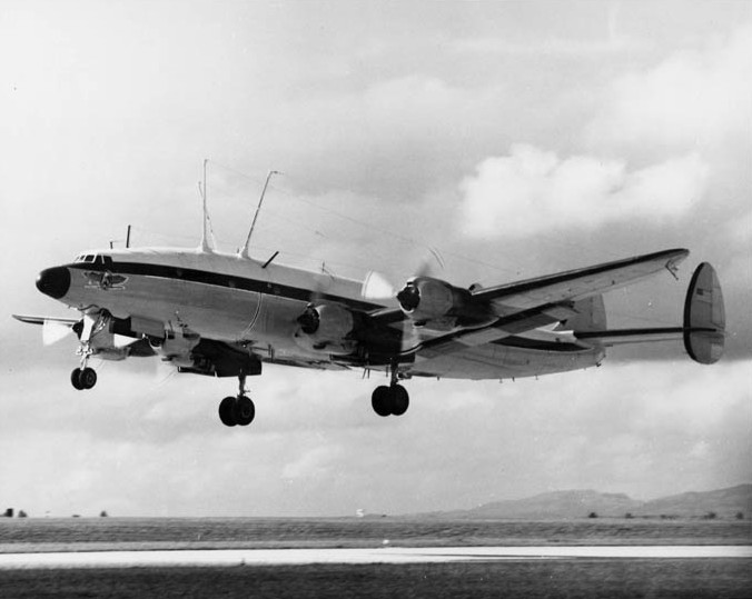 A U.S. Navy Lockheed NC-121J (BuNo 131627) Blue Eagle I of the OASU (Oceanographic Air Survey Unit, later air development squadron VX-8) landing in 1965. Two "Blue Eagle" aircraft were based at Tan Son Nhut Air Base near Saigon, South Vietnam, and broadcasted radio programmes of the American Forces Vietnam Network from 1965 to 1970 (called "Project Jenny"). 131627 has still three antenna masts on this picture. The center mast was removed prior to the deployment to Vietnam because of flight stability problems.